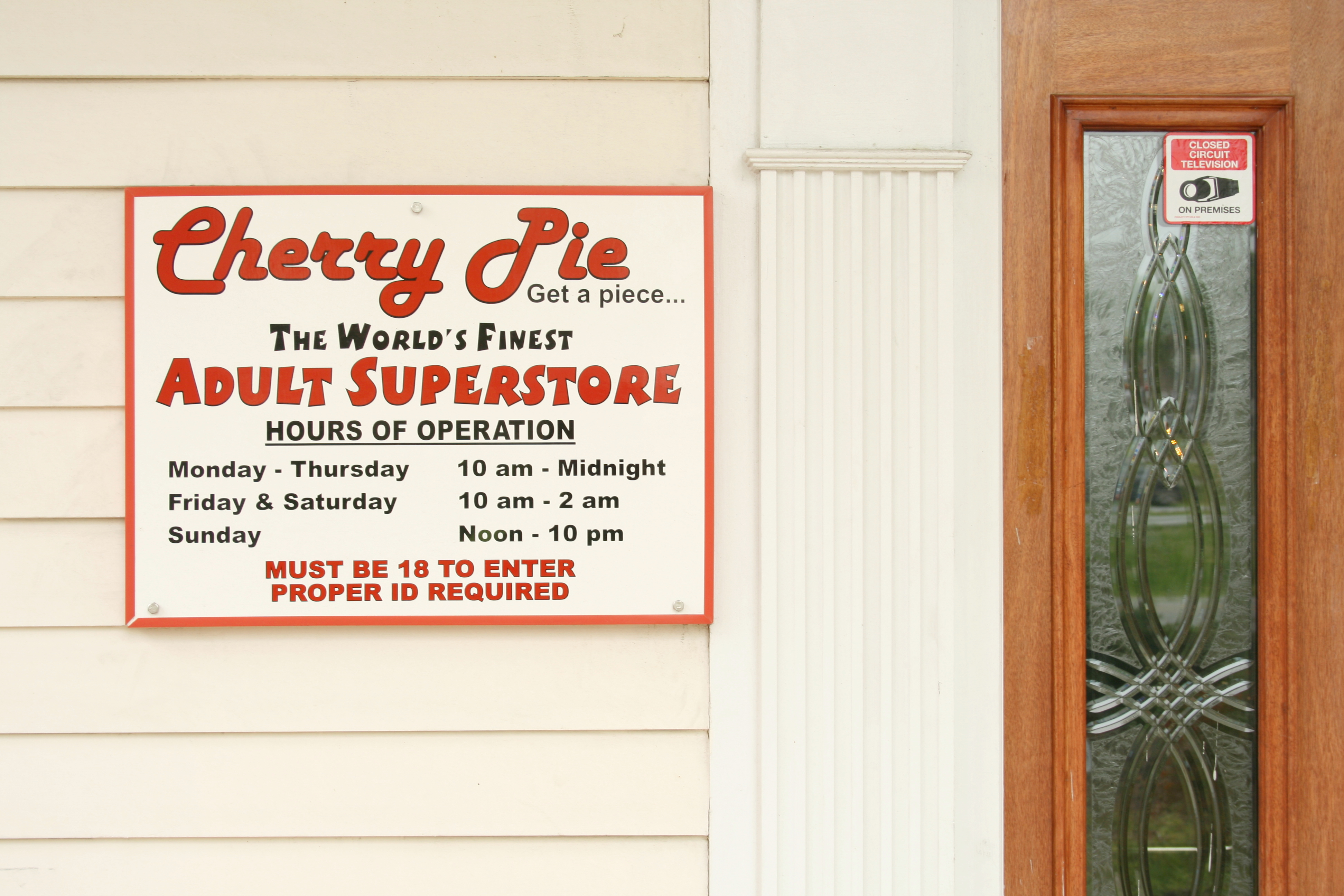 A sign at the entrance to Cherry Pie, an adult shop in Chapel Hill, North Carolina.